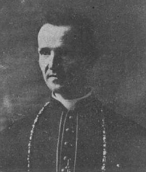 Janez Frančišek Gnidovec (1873-1939), Slovene bishop